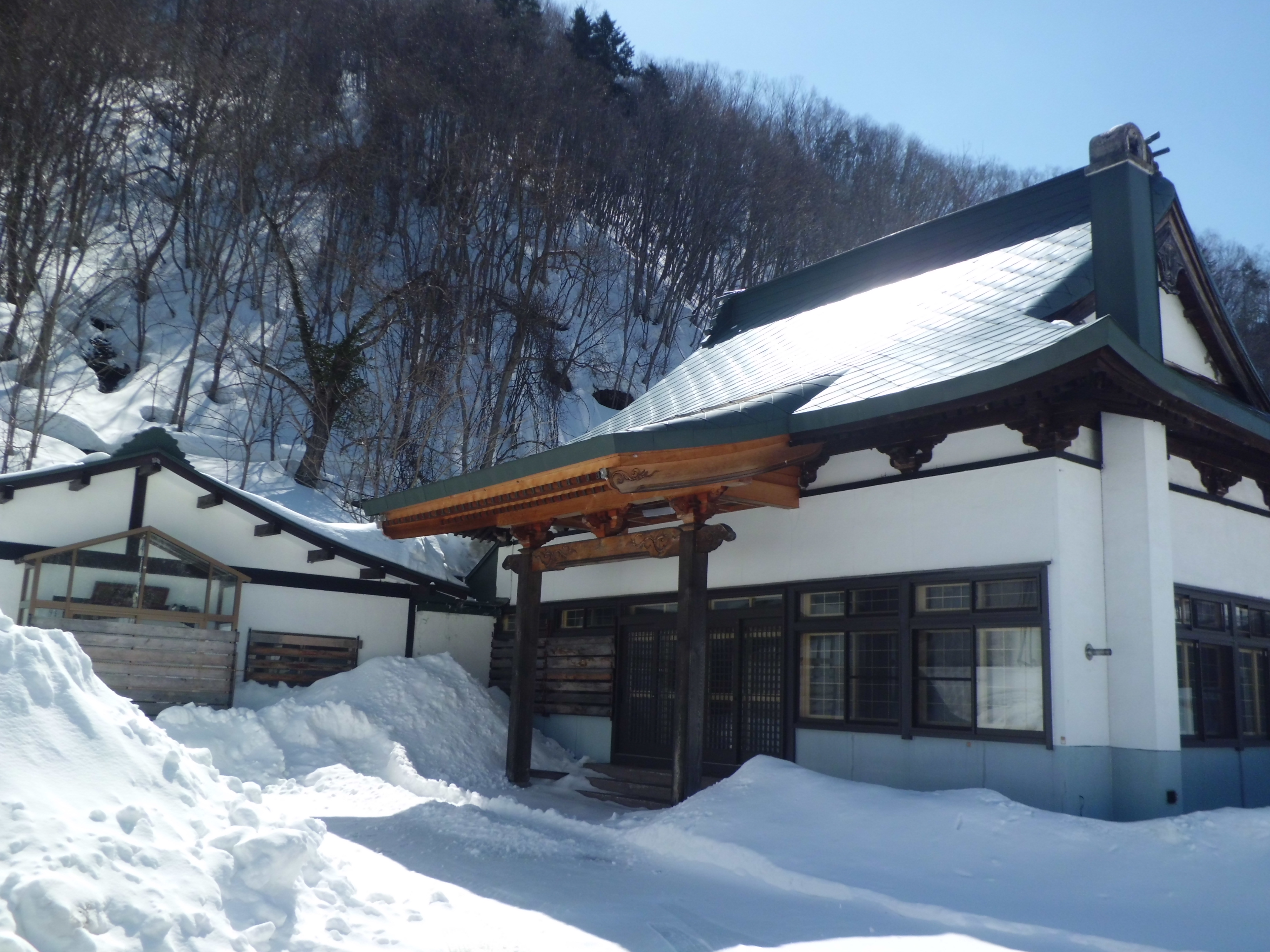 Jozan-ji in Minami-ku, Sapporo.